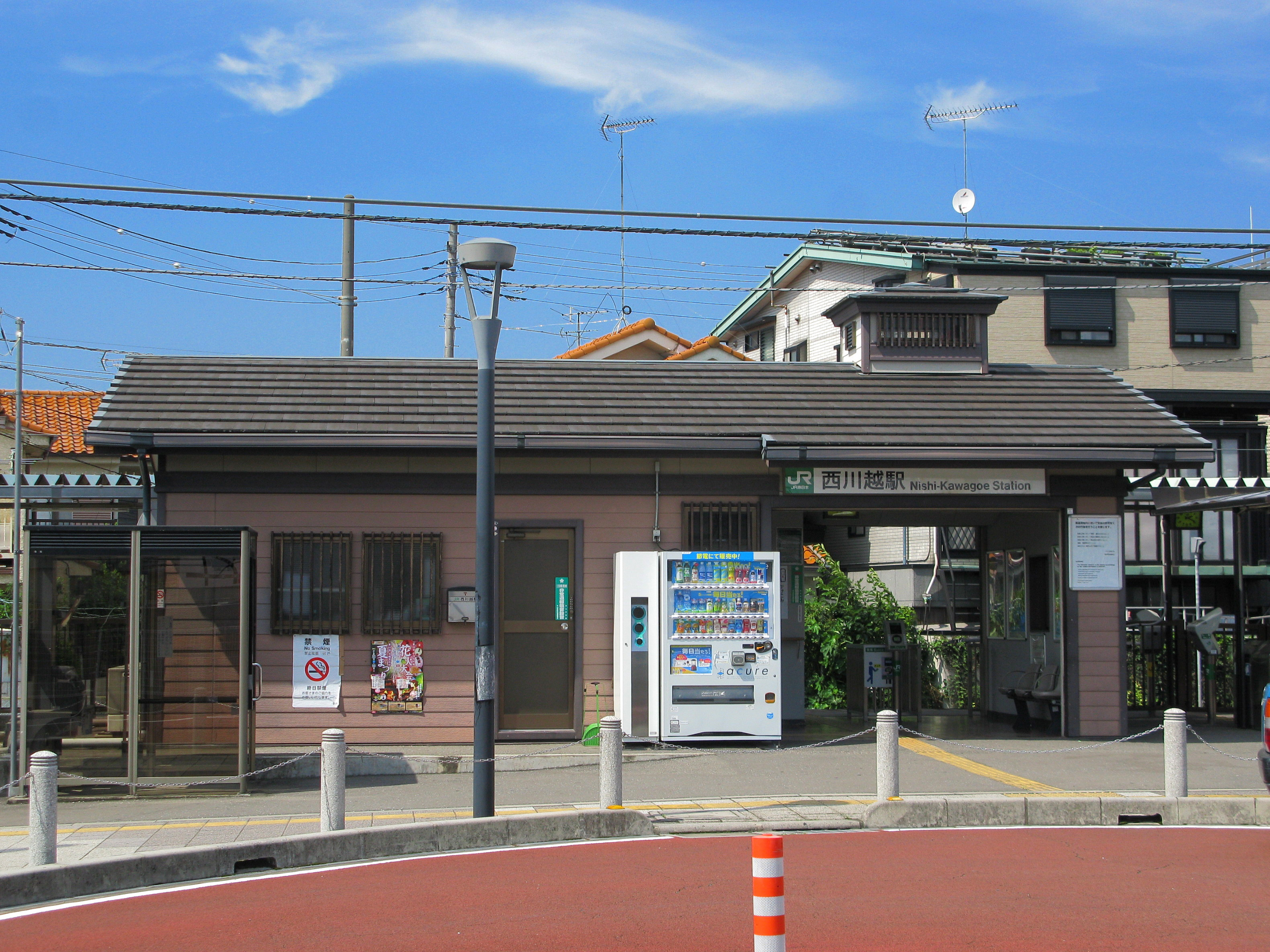 Station entrance and forecourt of Nishi-Kawagoe Station on the Kawagoe Line in Saitama Prefecture, Japan